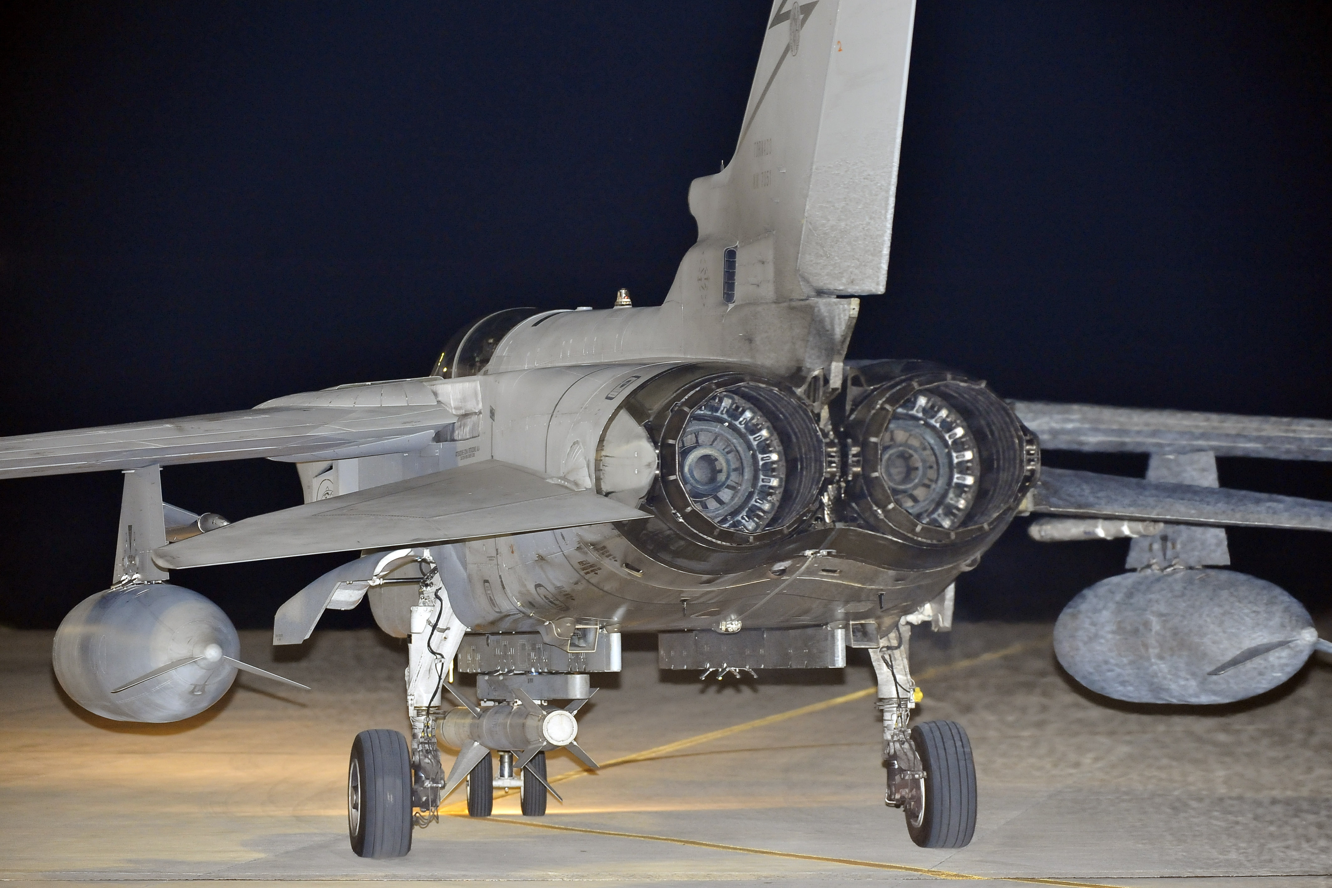 An Italian Air Force Tornado returning from a night flight at Trapani Air Base, Italy during Trident Juncture 15. NATO photo by Antonio STELLATO